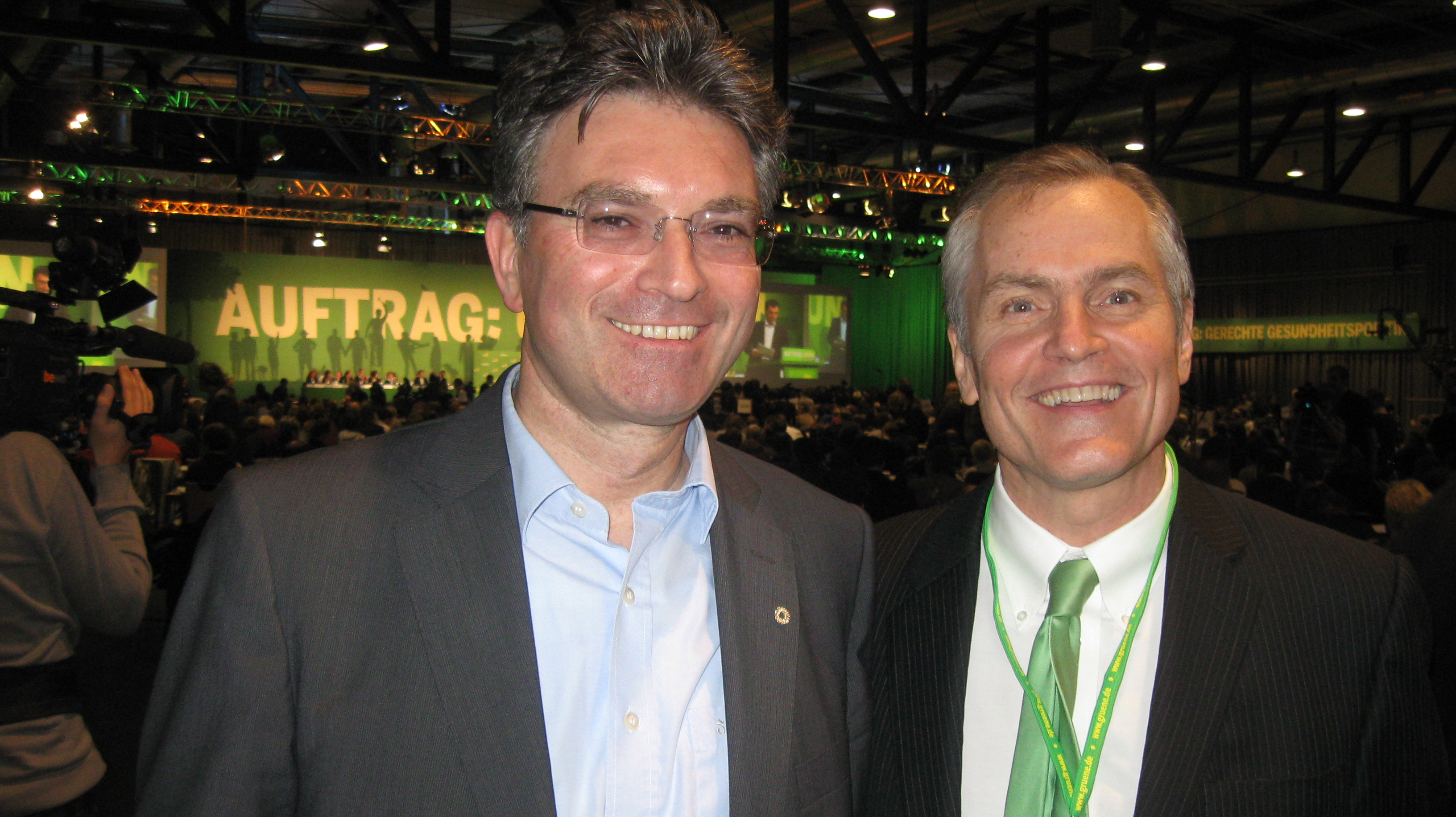 Dr. Dieter Salomon Green Party Mayor of Freiburg Germany with Carey Campbell Independent Green Party Chairman at Green Party Convention BDK November 21, 2010 Green Party Minute.